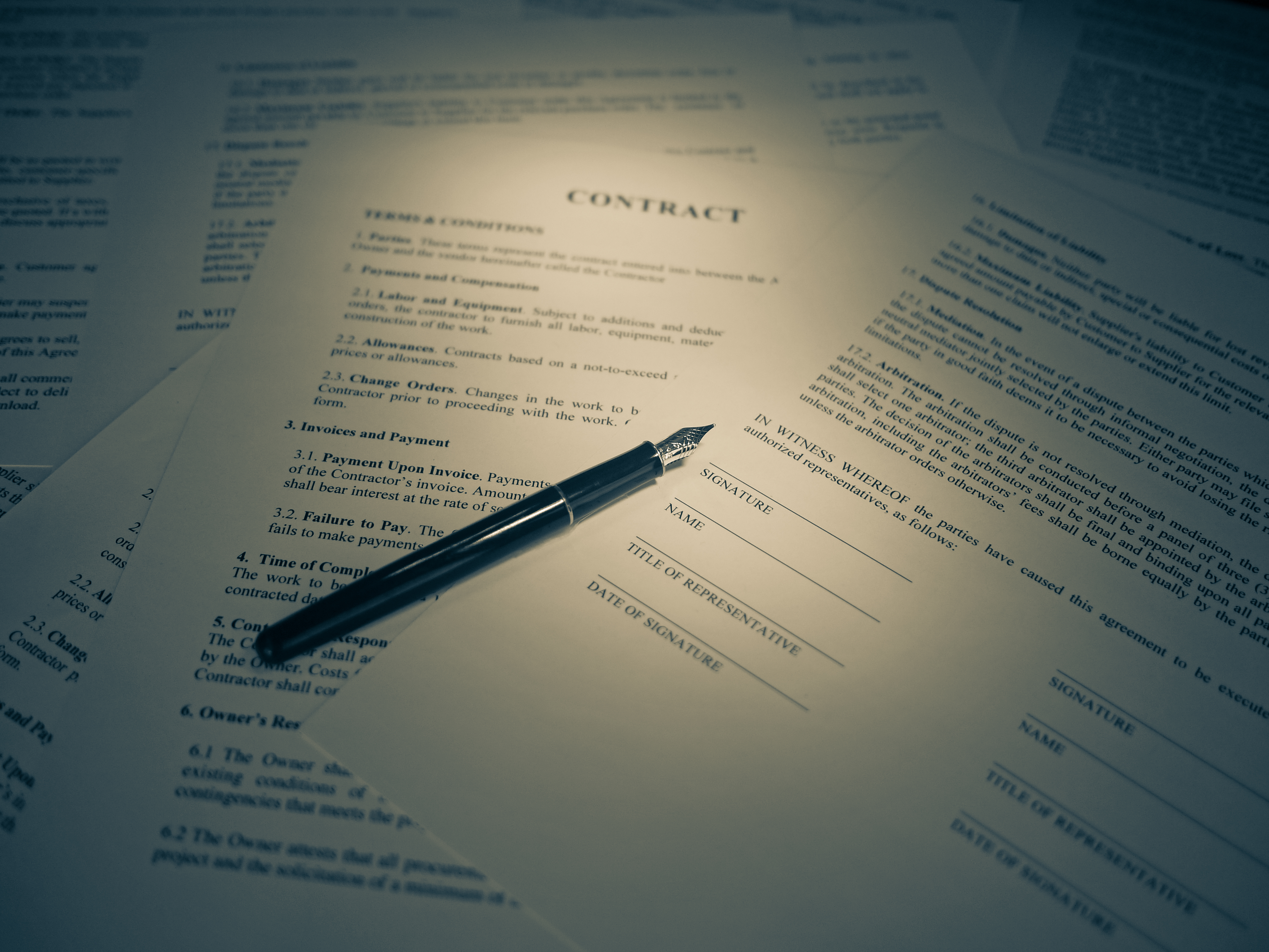 All content posted in the Blogtrepreneur Flickr Photostream is available for use under the Creative Commons Attribution License. Please provide attribution via a link to You get convenient access to this free original image in exchange for a simple attribution. An additional version of this image is available in cool tones. These images have also been described as: papers to sign, papers on a desk, stack of lawyer papers, legal forms, lawyer job, pen on paper, legally binding documents, agreements, legal contracts, papers scattered on a desk, repetitive, signature, blurry, unclear, pile of documents, dull paperwork, official documents, documents and writing instrument, pen and paper, office , tan sepia tone, paper work, agreeing to pay, laying flat, preparing for legal stuff signing, writing, parsing important information, lawyer signing paperwork, challenging, sue, signing a contract, progressing official, the contract must get inked, the pen is resting on the paper, stuff that bores me, slow and boring, reading, demanding, preparing a contract, filling in forms, suing, reading between the lines, getting legal help, black pen on paperwork, getting ready to sign, advancement, legalize, signing a legal document, legal papers, eye-crossing work, boring